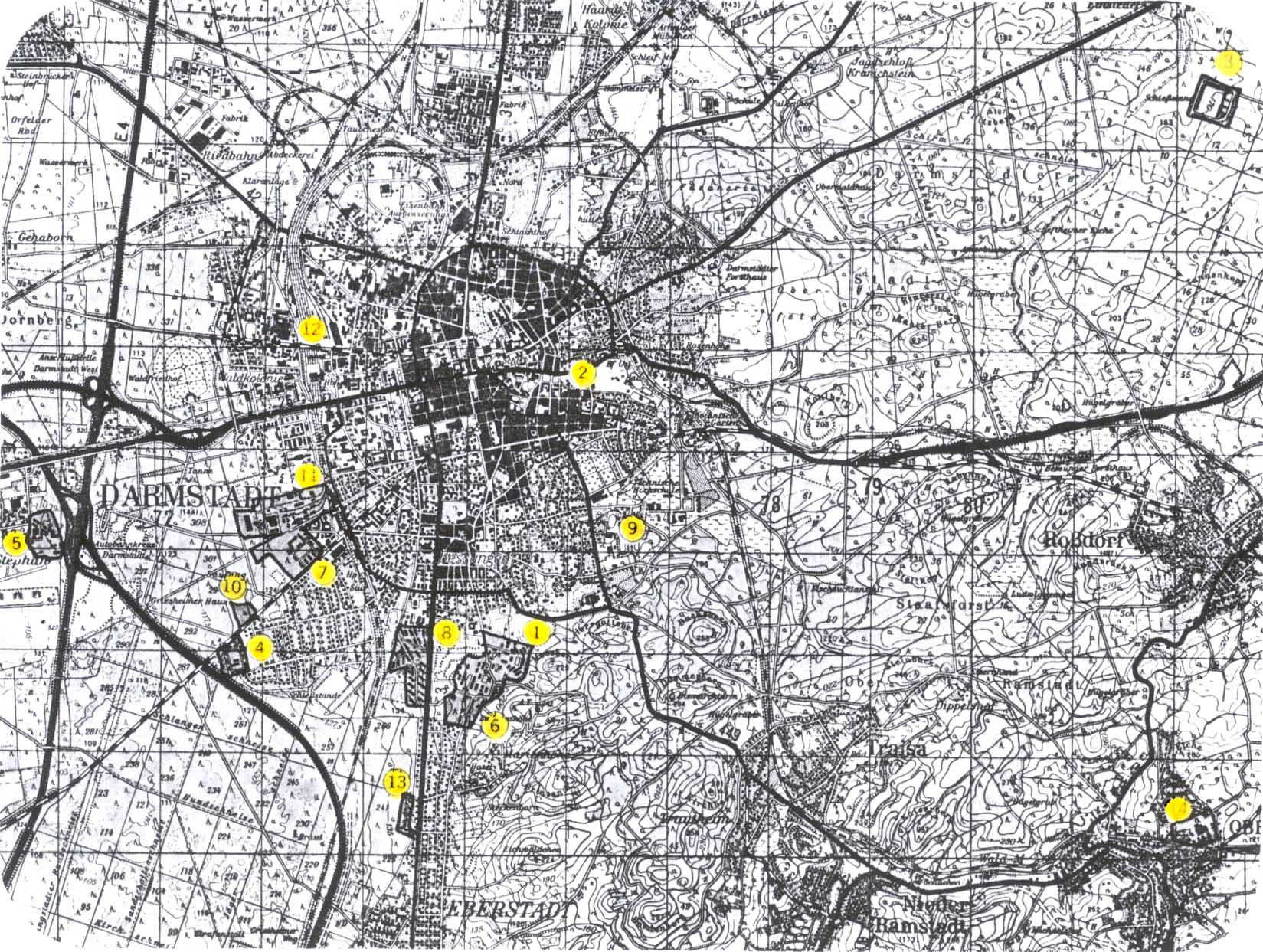 Topographical map of Darmstadt reproduction of a map from U.S. Military Installation Atlas published by the 37th Transportation Group in 1980 1 Cambrai-Fritsch Kaserne 2 City Hall 3 Messel Rifle Range 4 Ernst Ludwig Kaserne 5 Griesheim Army Airfield 6 Jefferson Village Housing Area 7 Kelley Barracks 8 Lincoln Village Housing Area 9 Polizeipräsidium 10 POL Storage 11 Quartermaster Supply Area 12 Railroad Station 13 St. Barbara Village Housing Area 14 Tire Rebuild Plant Ober-Ramstadt